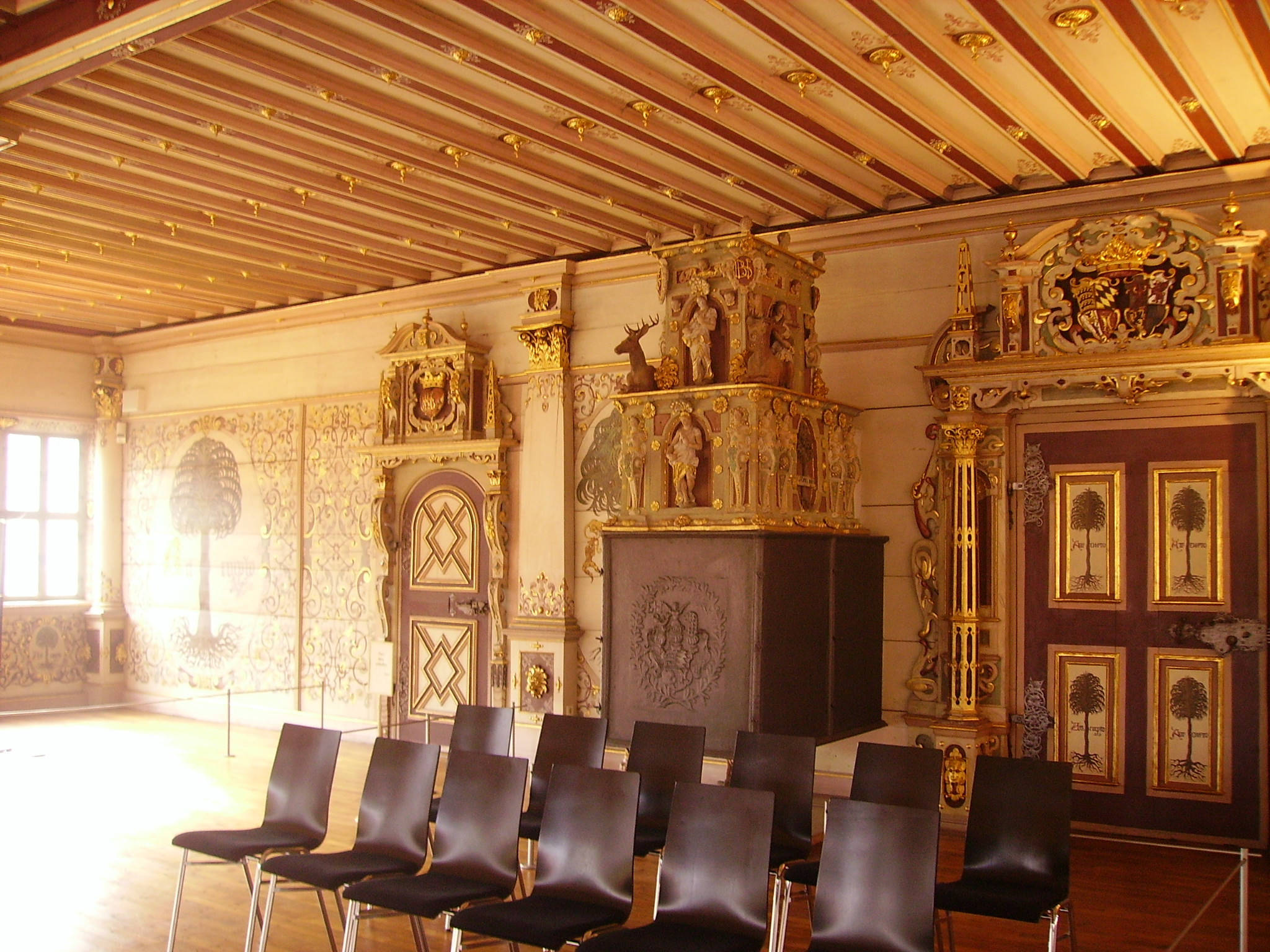 Golden Room of Urach Castle, Bad Urach